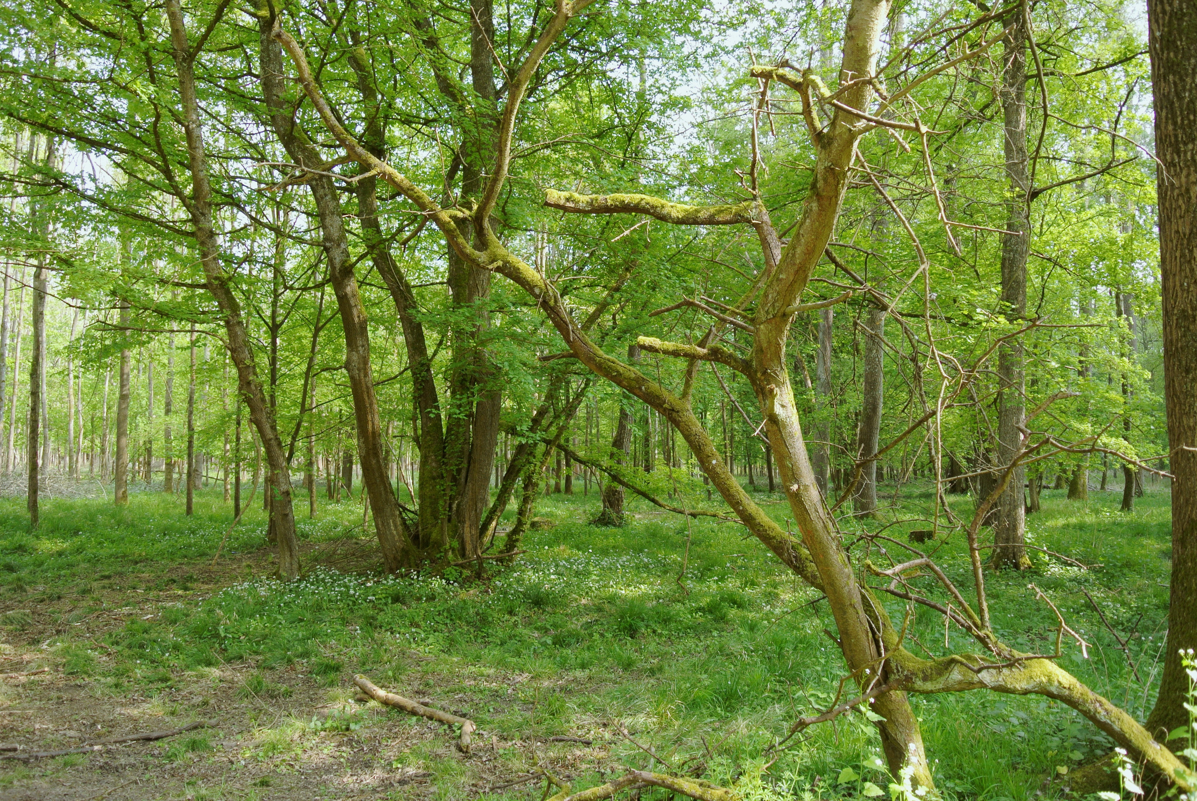 Temperate forest at the Illwald natural reserve southeast of Selestat, in the plain of Alsace.